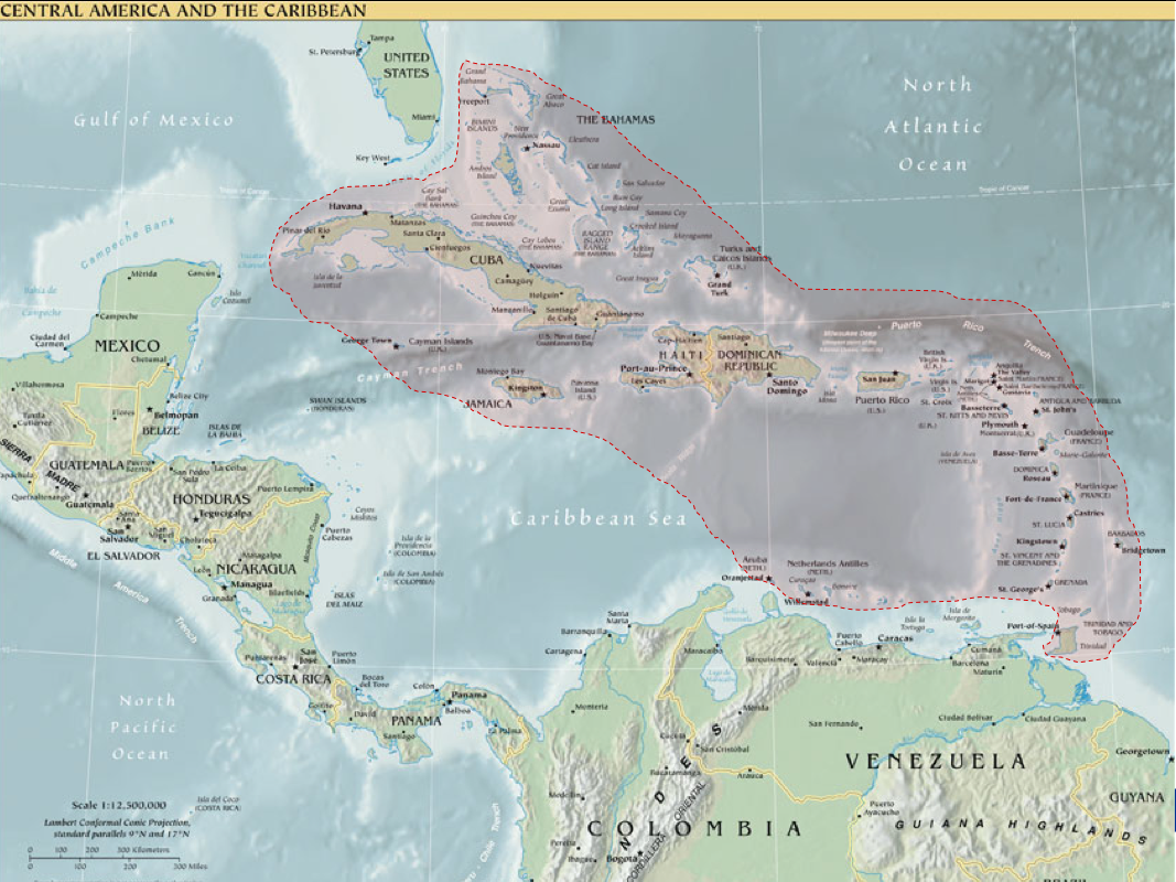 Caribbean Initiative Area